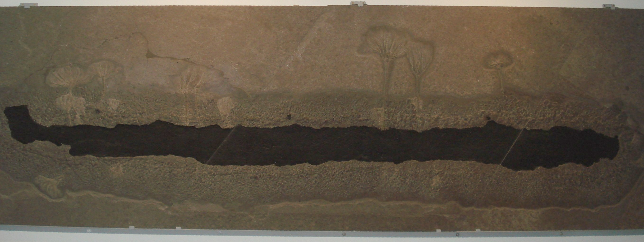 fossil of seirocrinus